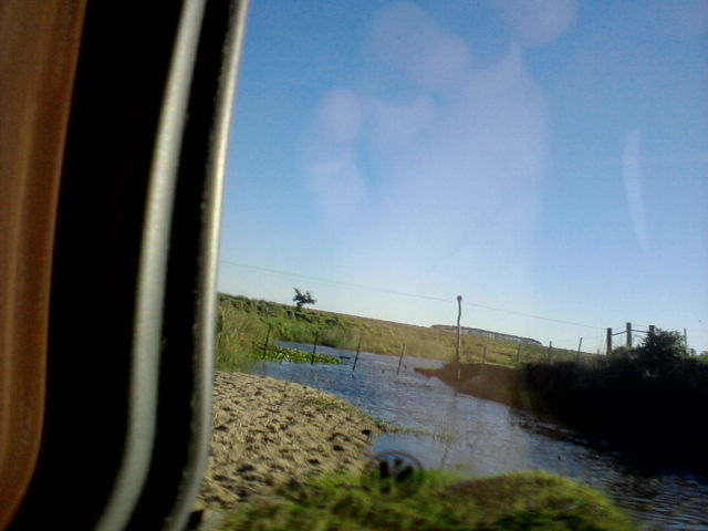 View of the stream Arroyo Pedras Blancas, tributary of Río Tacuarí, in Cerro Largo, Uruguay.